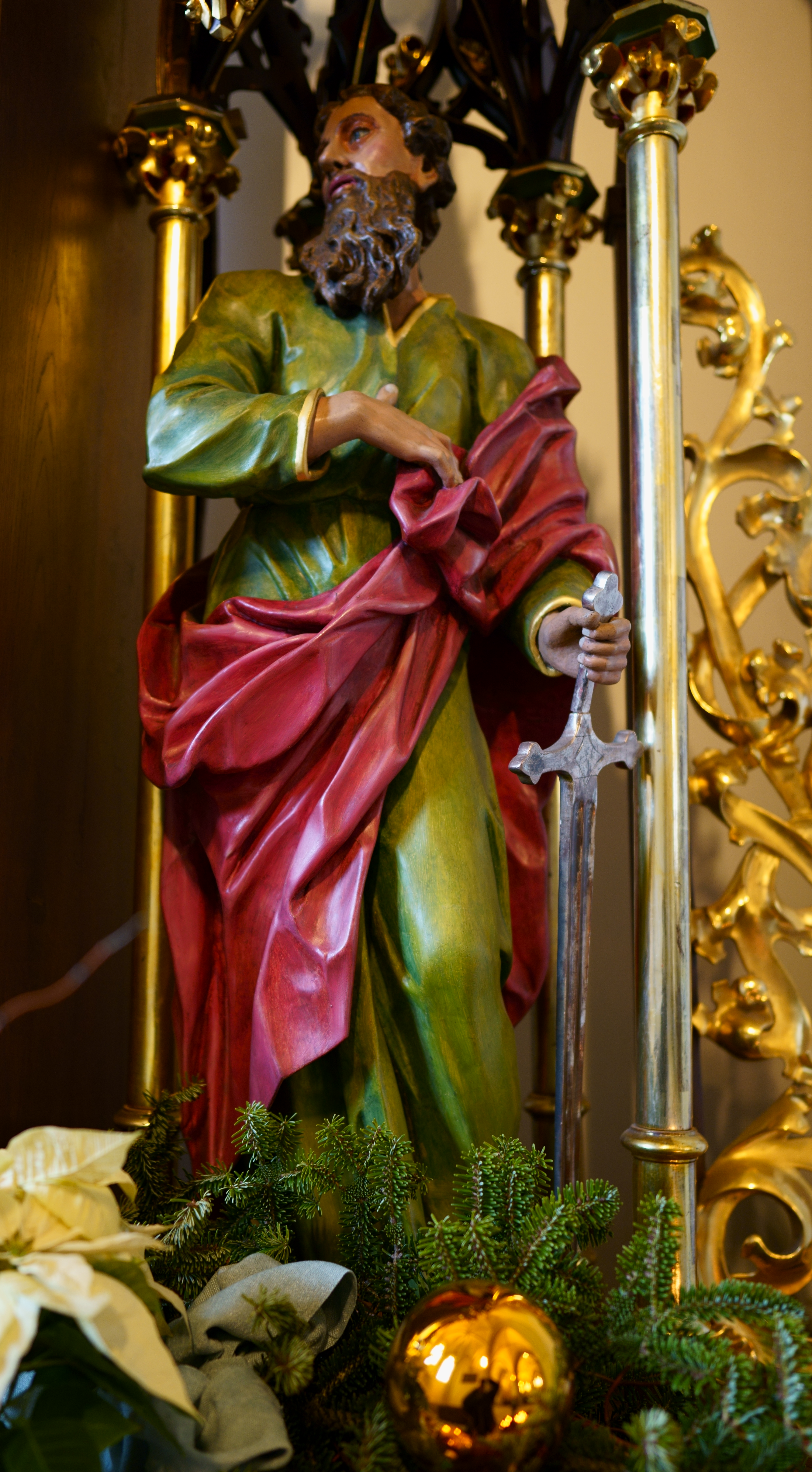 The church Józef statue of saint Peter. Altar of Our Lady of Częstochowa. Aauthor Wit Wisz